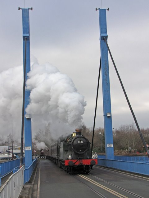 5643 on the swing bridge, near to Larches, Lancashire, Great Britain. Former Great Western Railway 56XX Class 0-6-2T 5643 crossing the combined road and rail swing bridge at Preston Marina